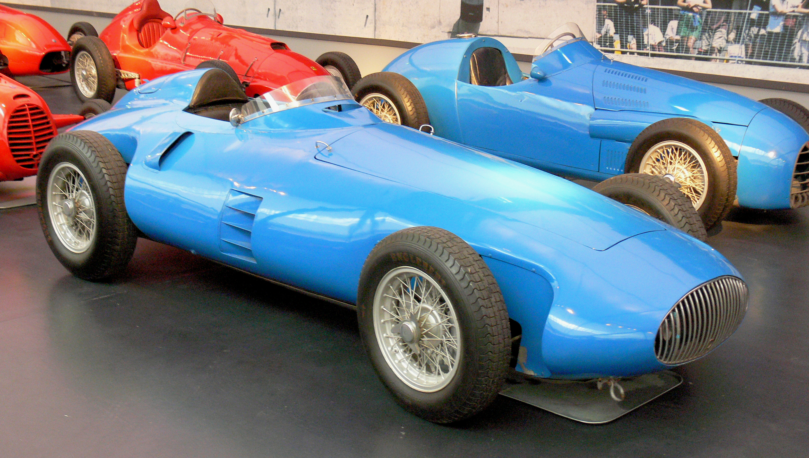 Gordini Monoplace GP Type 32 (forward) and Type 16 in the Musée National de l'Automobile (Mulhouse)